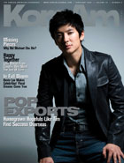 Magazine cover of KoreAm from February 2008 issue featuring Tim Hwang.